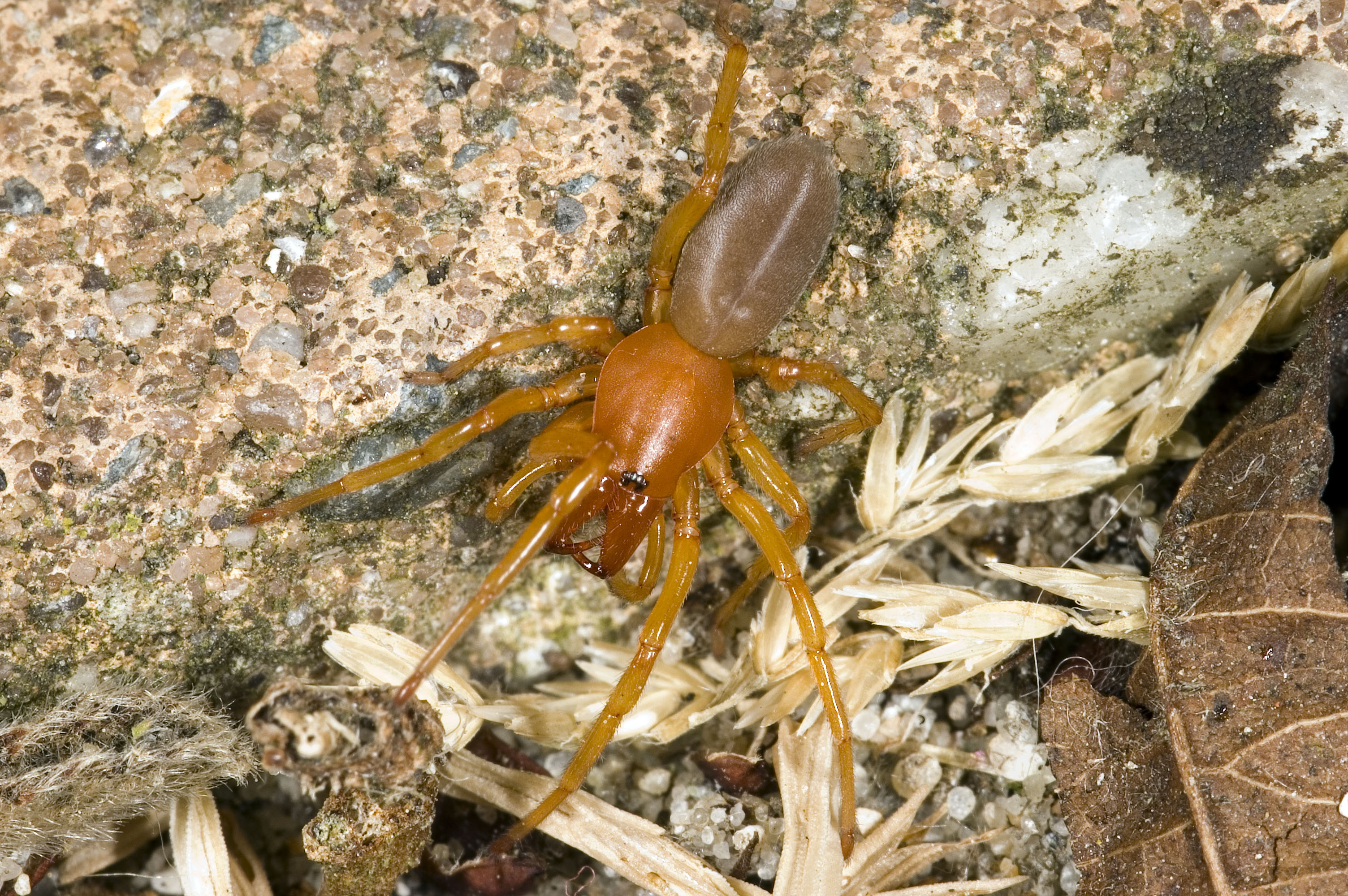 Woodlouse spider (Dysdera crocata). Photo taken in Oudenaarde, Belgium on 12 June 2005 by Michel Vuijlsteke. Nikon D70, AF-S DX Zoom-Nikkor 18-70mm f/3.5-4.5G IF-ED. 180mm, f/32, 1/500.